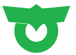 Otari Nagano chapter